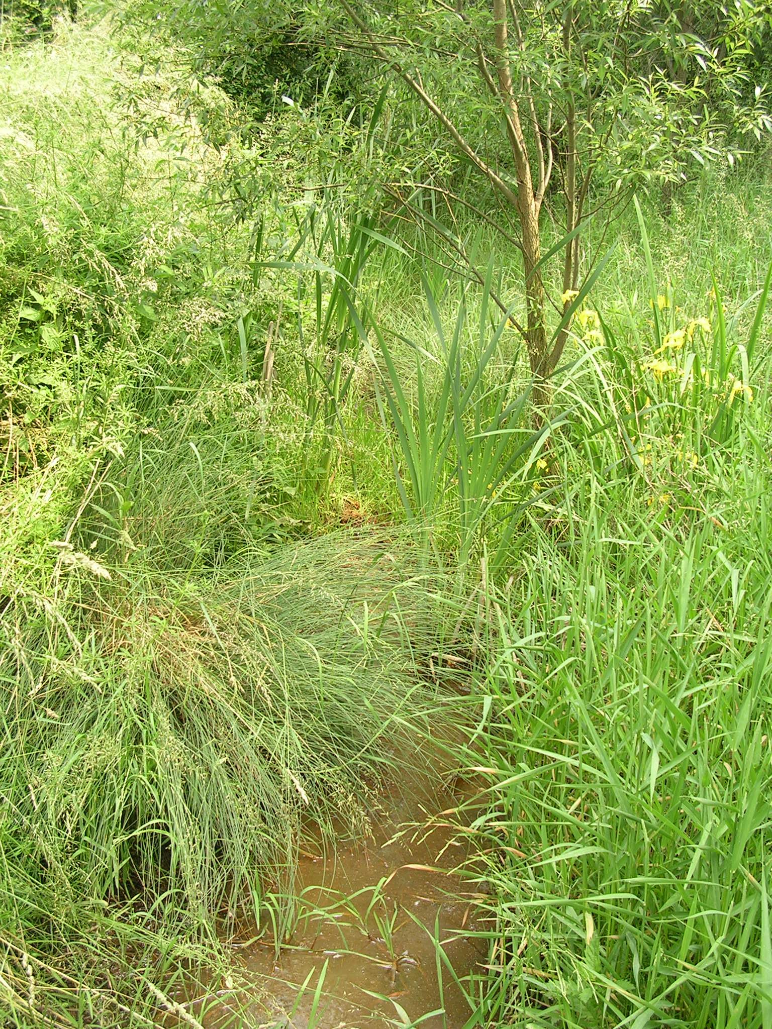 Prague-Hostivař. The Czech Republic.